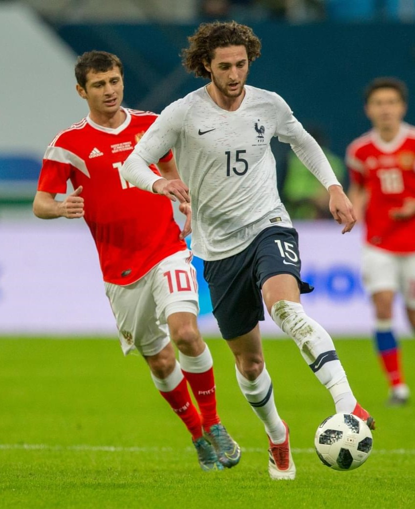 27.03.2018. Россия, Санкт-Петербург, «Санкт-Петербург». Товарищеский матч «Россия» — «Франция».